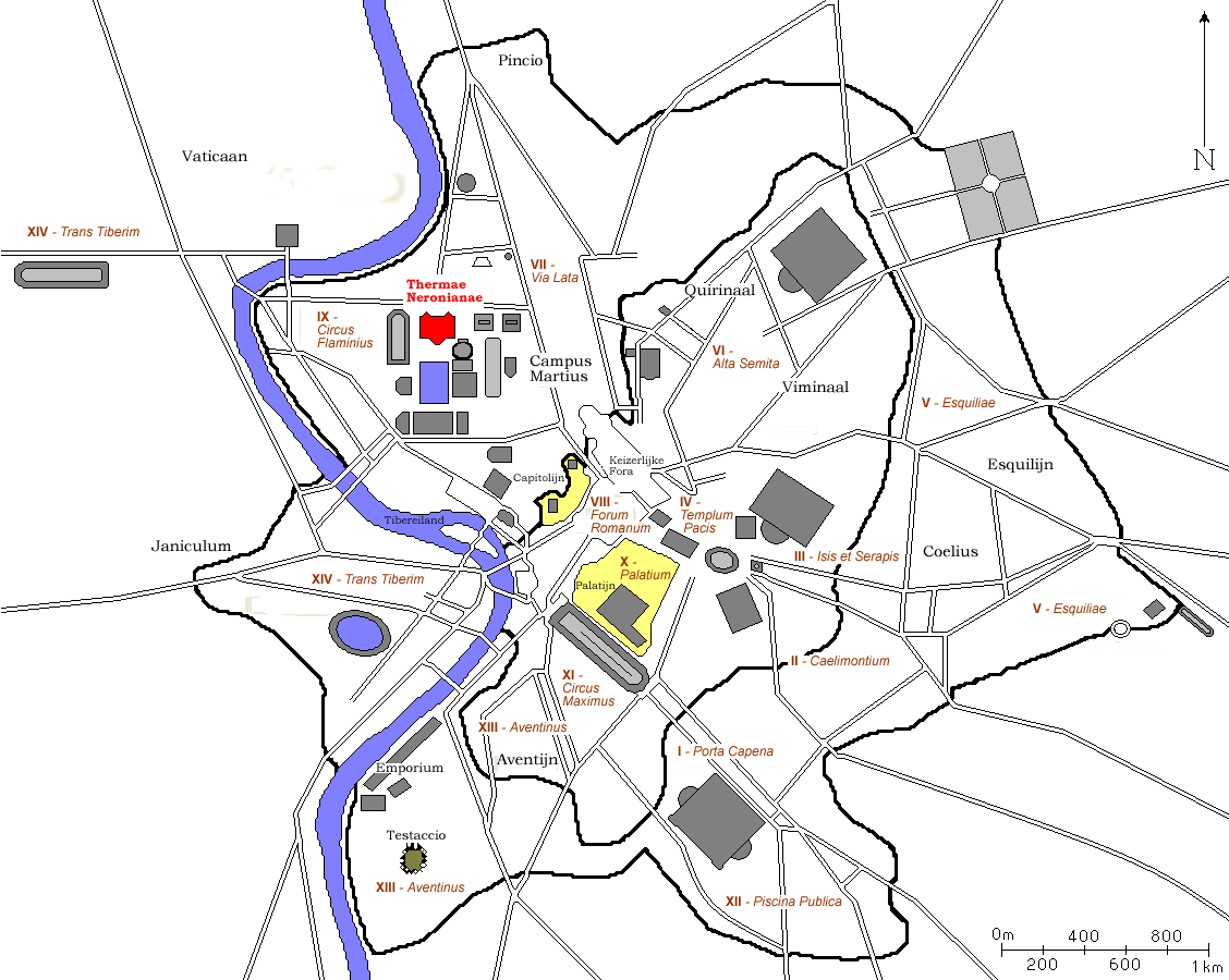 Baths of Nero on a map of ancient Rome around 300 AD